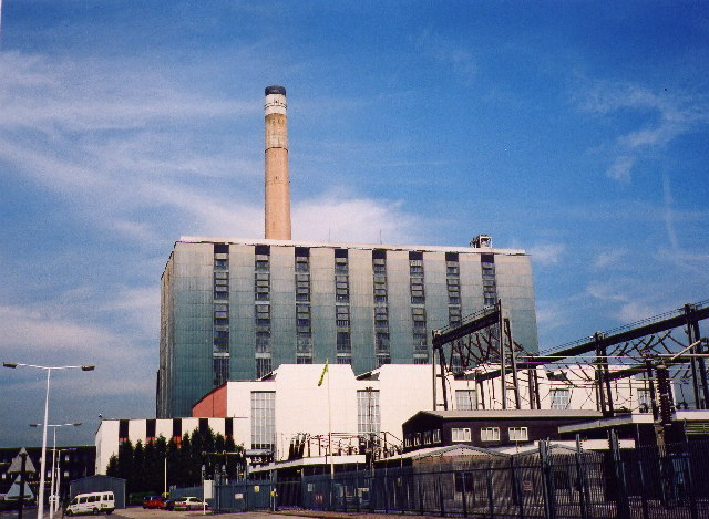 Rugeley Power station